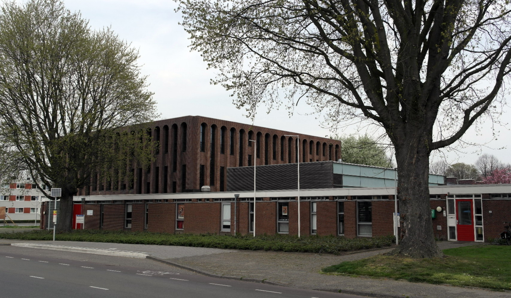 Maastricht, the Netherlands. View of the former parish church of the 1960s neighbourhood of Malpertuis. The church with the adjacent monasterial building is now used by the opera company Opera Zuid.